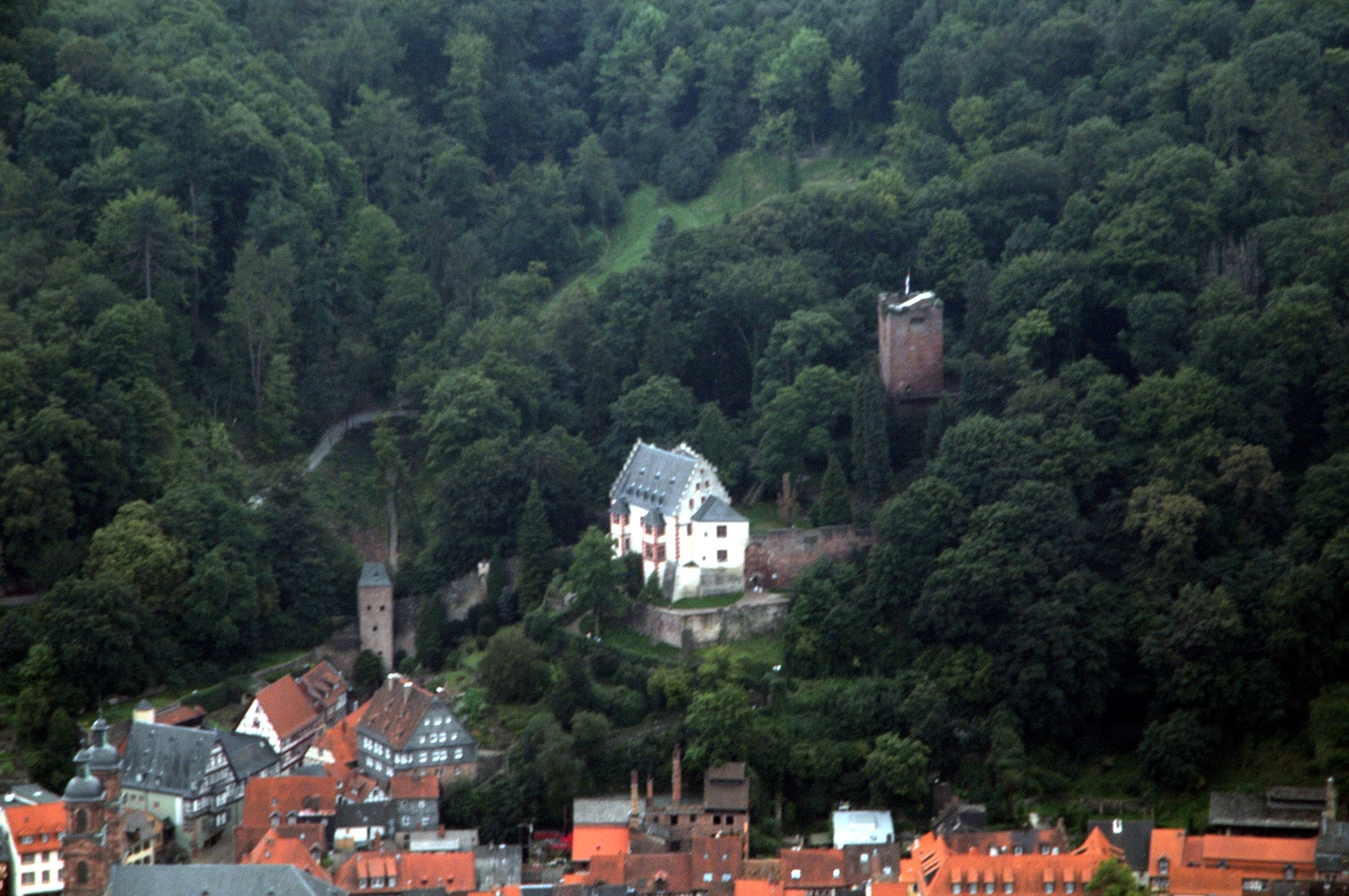 Miltenberg, Bavaria, Germany, aerial photograph